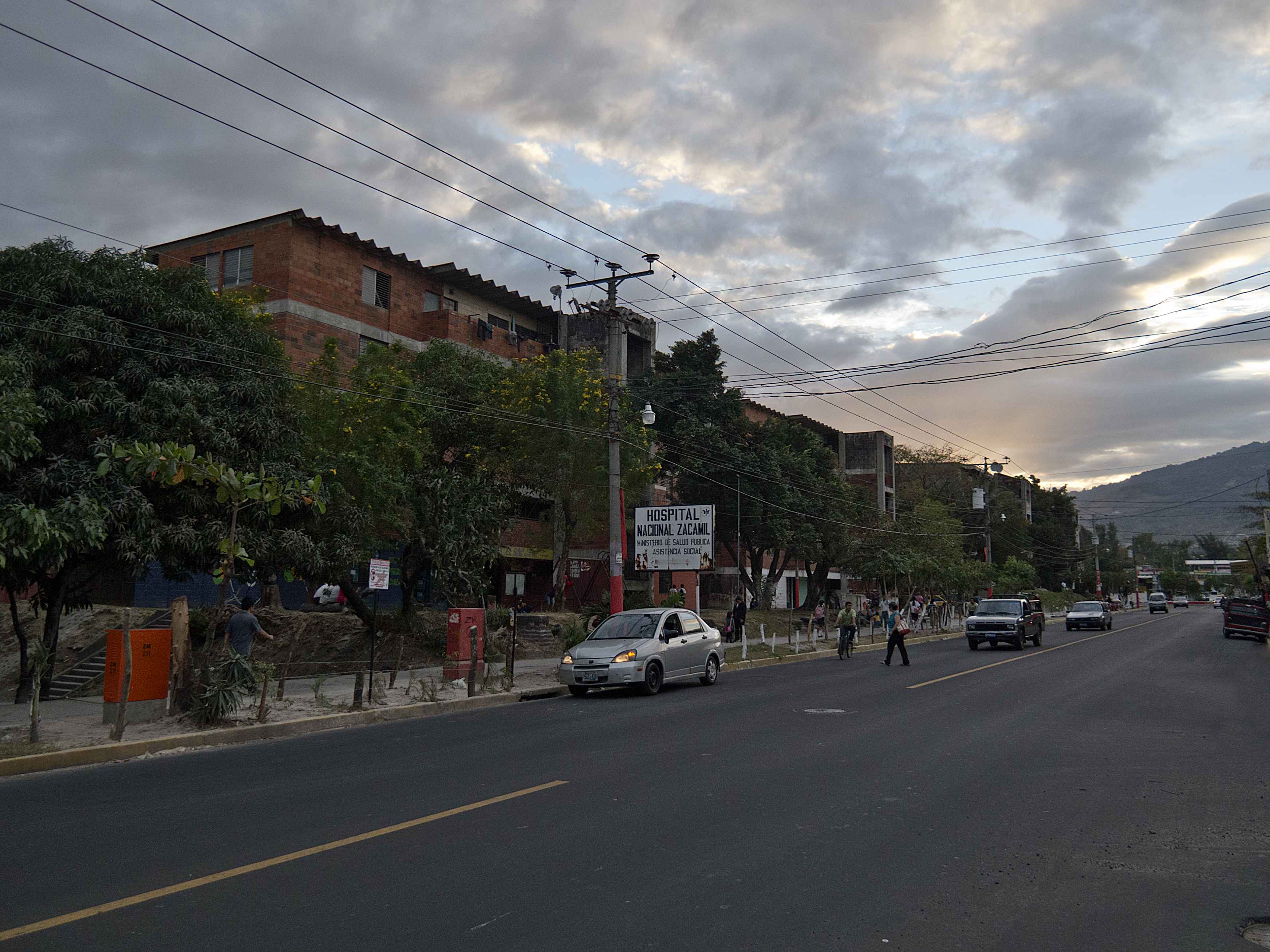 Zacamil neighborhood of Mejicanos, San Salvador, El Salvador